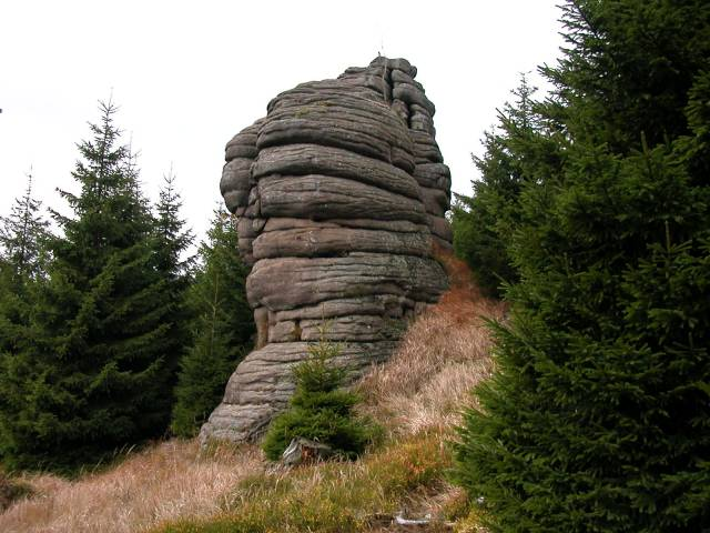 Kanzelklippe on Königsberg in the Harz mountain range, Germany